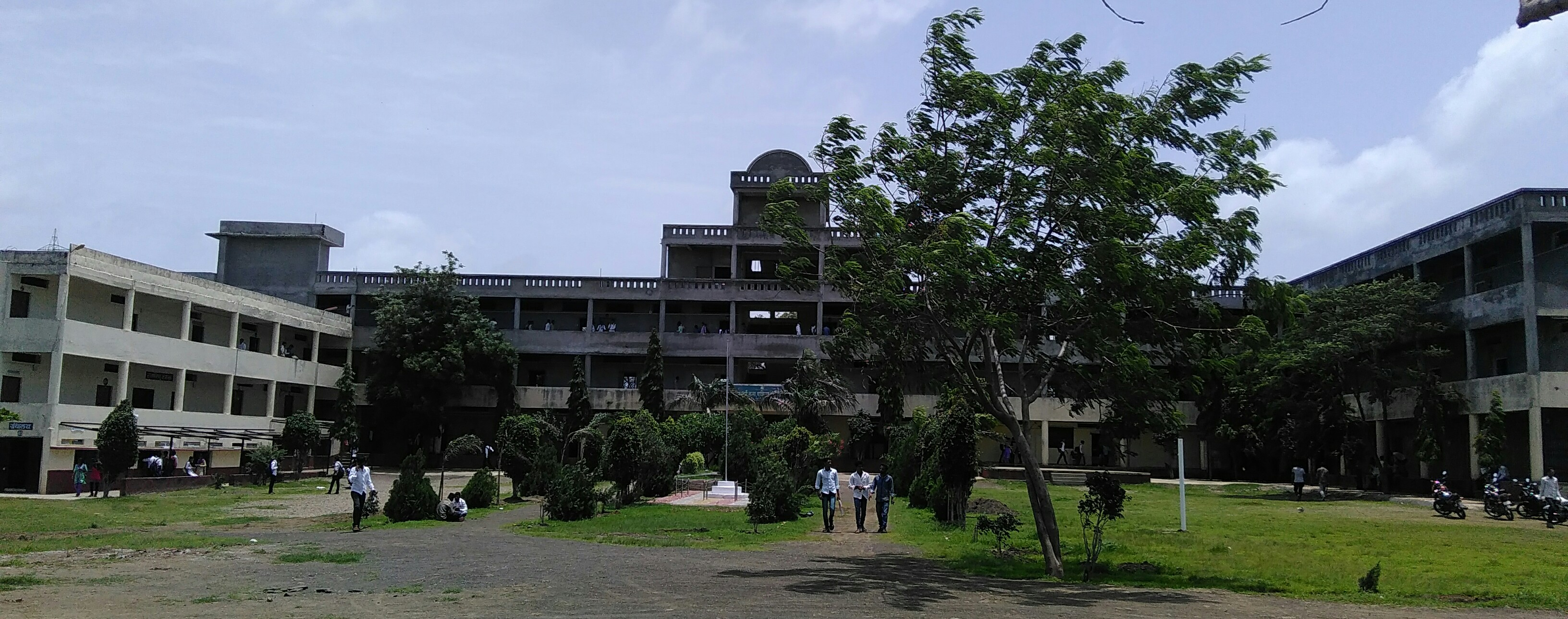 Siddharth Art's, Commerce and Science College, Jafrabad (Jalna district, Maharashtra, India)